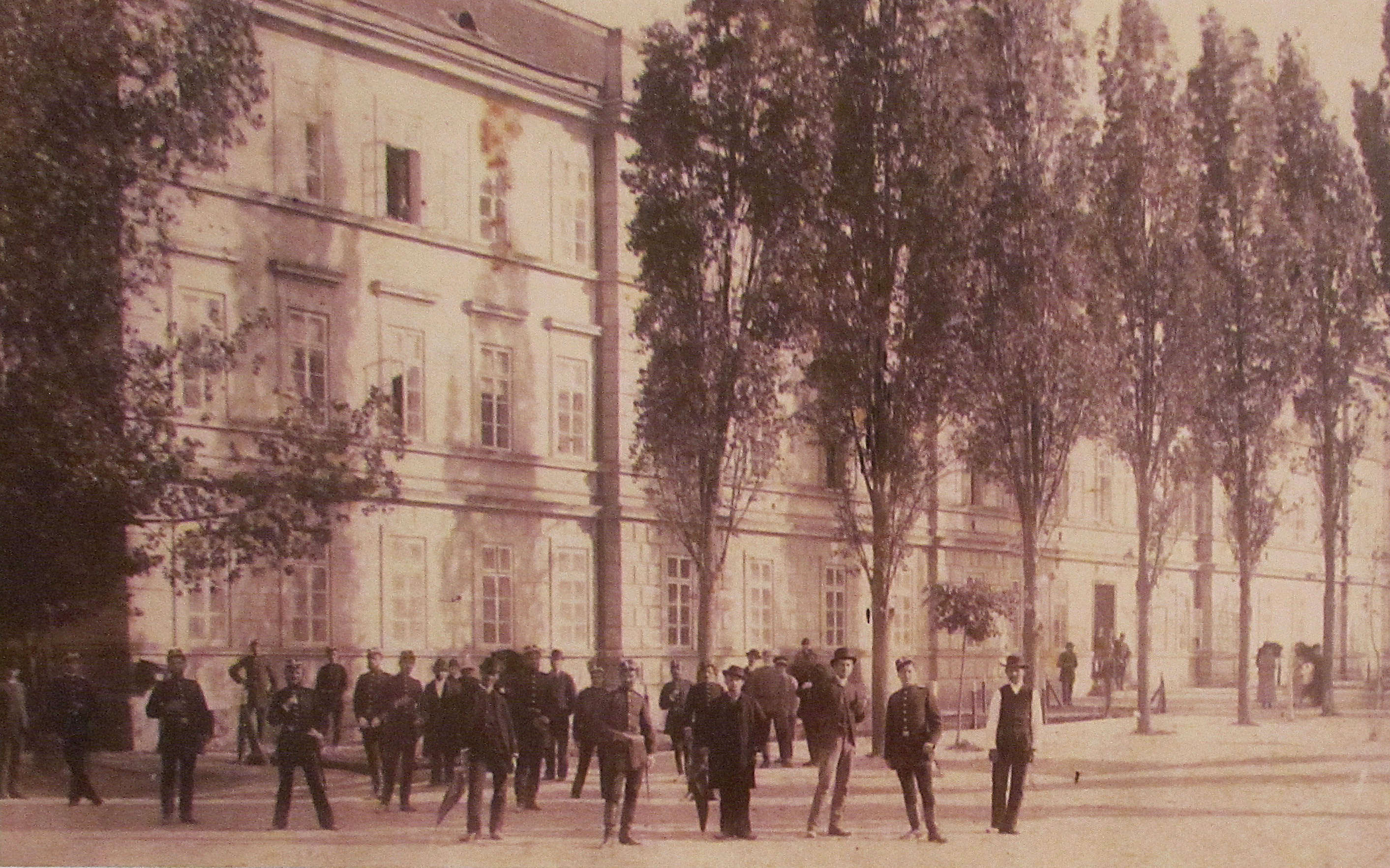 Military Academy (Serbia) 1888